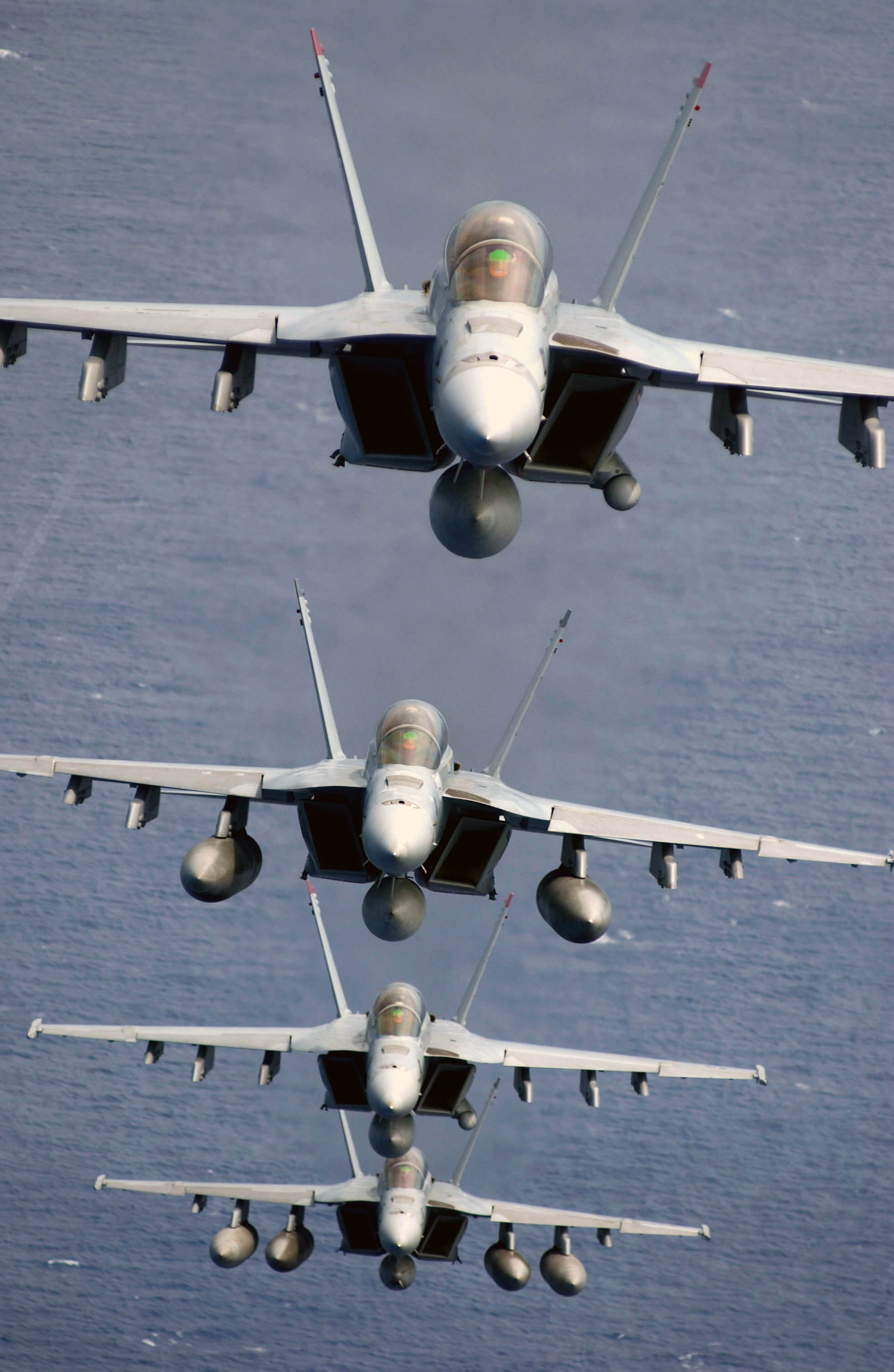 F/A-18 Super Hornets assigned to the “Black Aces” of Strike Fighter Squadron Forty One (VFA-41) fly over the Western Pacific Ocean in a stack formation. The Nimitz Carrier Strike Group and Carrier Air Wing Eleven (CVW-11) are deployed to the Western Pacific.